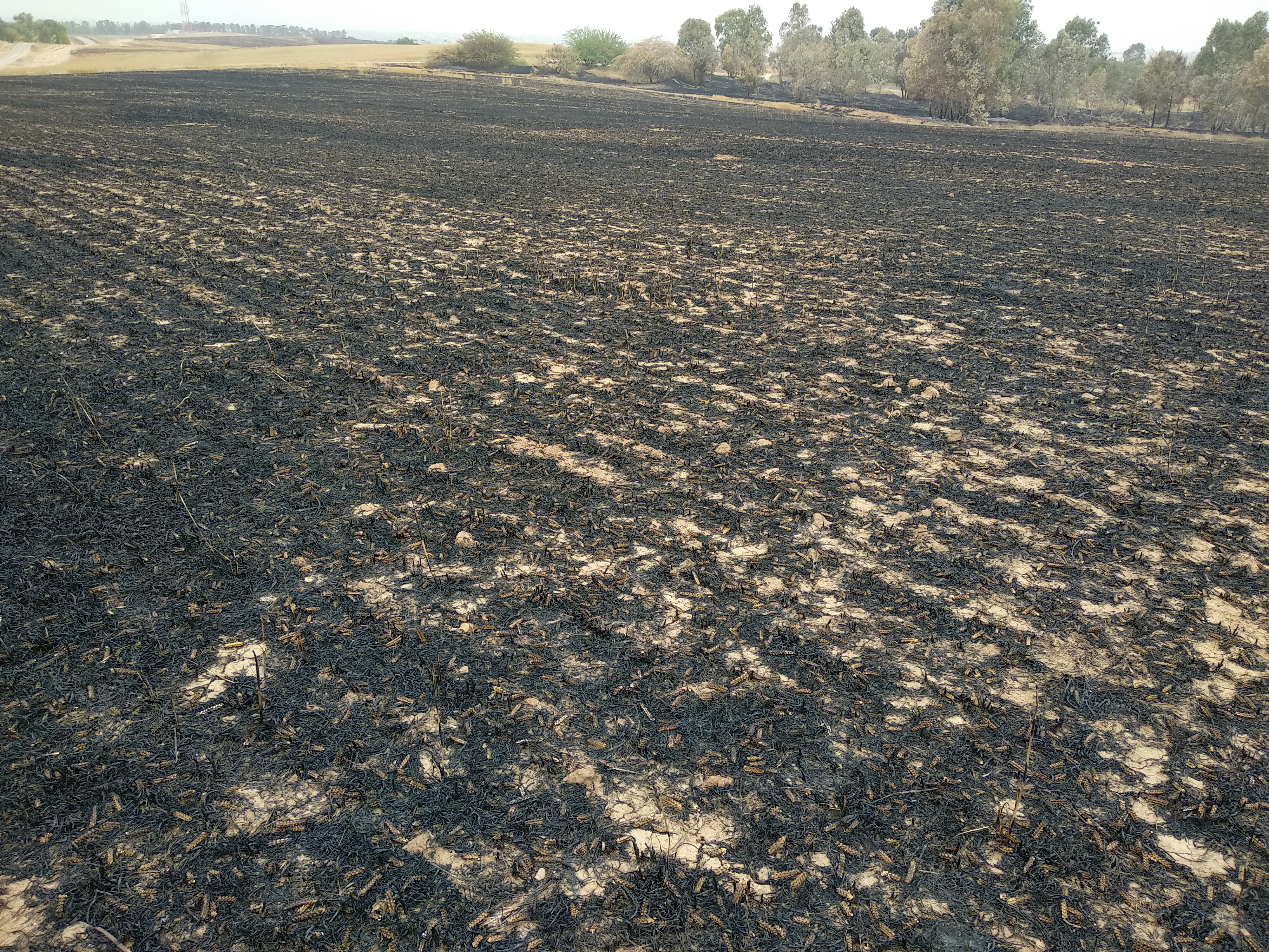 fields of Eshkol Regional Council thet was burnt by fired Caused by fired object thet eas conected to the tip of kites tails, thet eas sent from Gaza strip